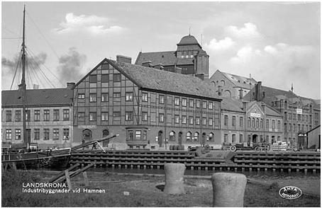 Frans Ekelund restored this half-timbered building in the harbour of Landskrona. The building style is traditional for Scania, but in Landskrona there are few such buildings. Pure stone houses were preferred as the town was fortified.